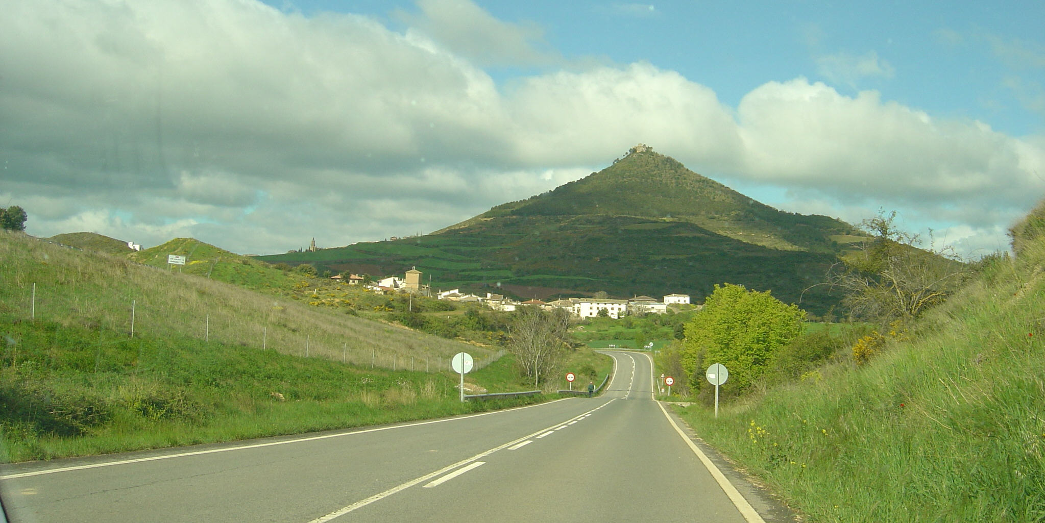 Azketa / Azqueta, Navarra, Spanien/Spain - although the title is different, it's the village before Monjardin, in the backround you can see the tower of the church of monjardin